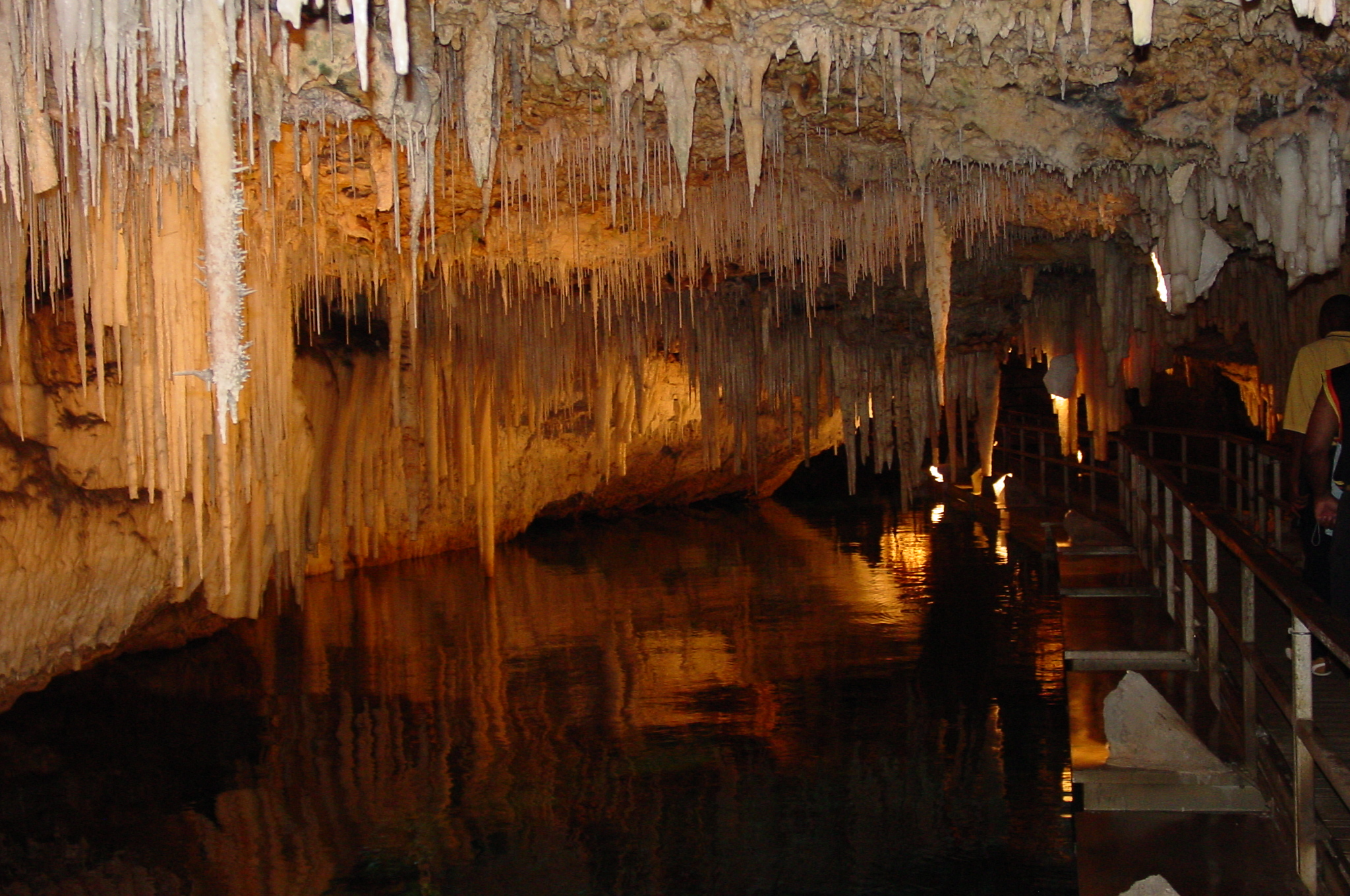 A view inside Crystal Cave, located in Hamilton Parish,Bermuda.